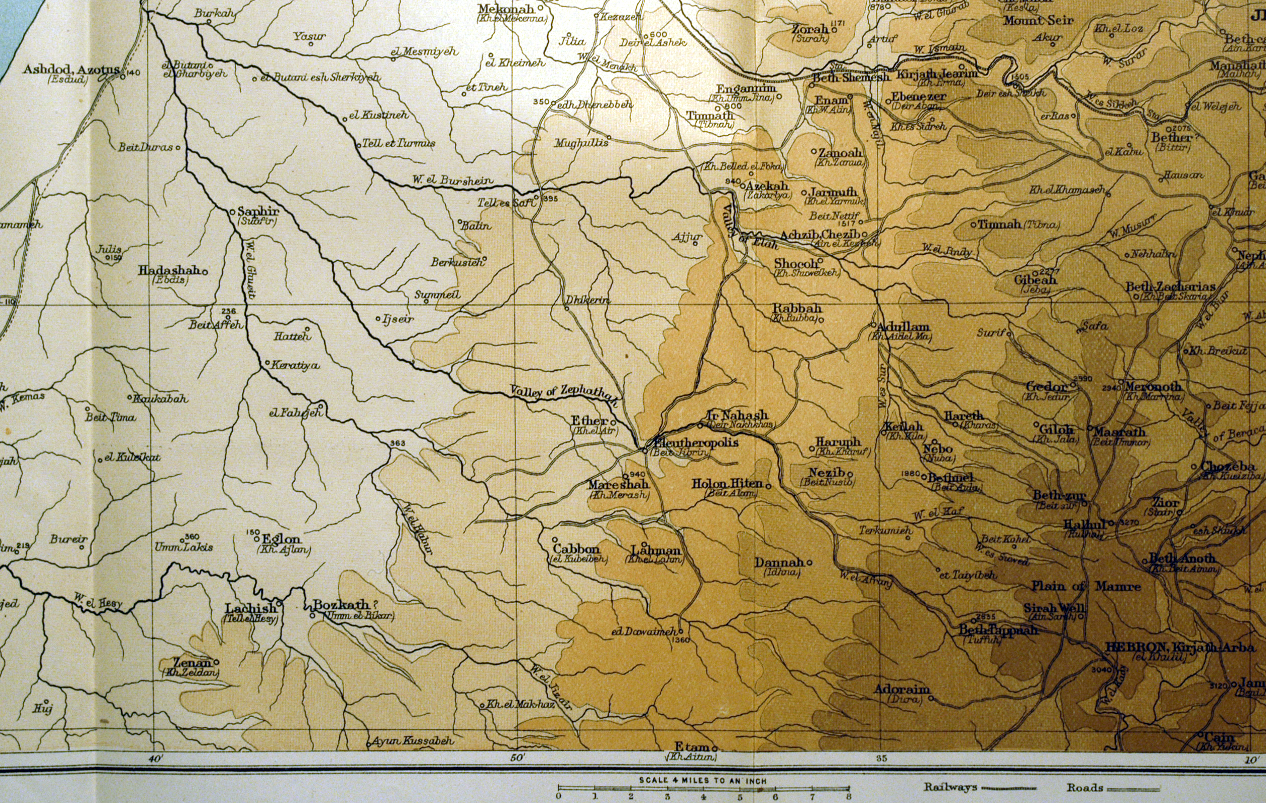 Map of Ad Dawayima, 10 miles west of Hebron. 1894.